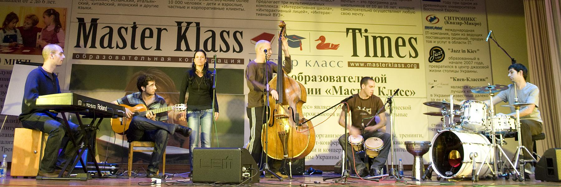 "Avishai Cohen Eastern Unit" during master classes in Kiev, 2008-10-19 LTR: Shai Maestro, Eyal Heler, Karen Malka, Avishai Cohen, Itamar Doari, Mark Guiliana